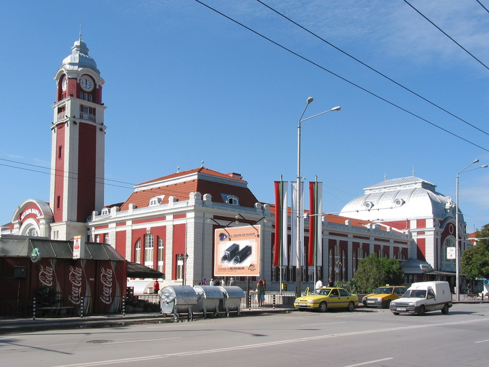 Railway Station of Varna selfmade photo